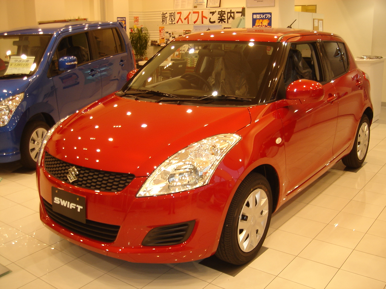 Suzuki SWIFT